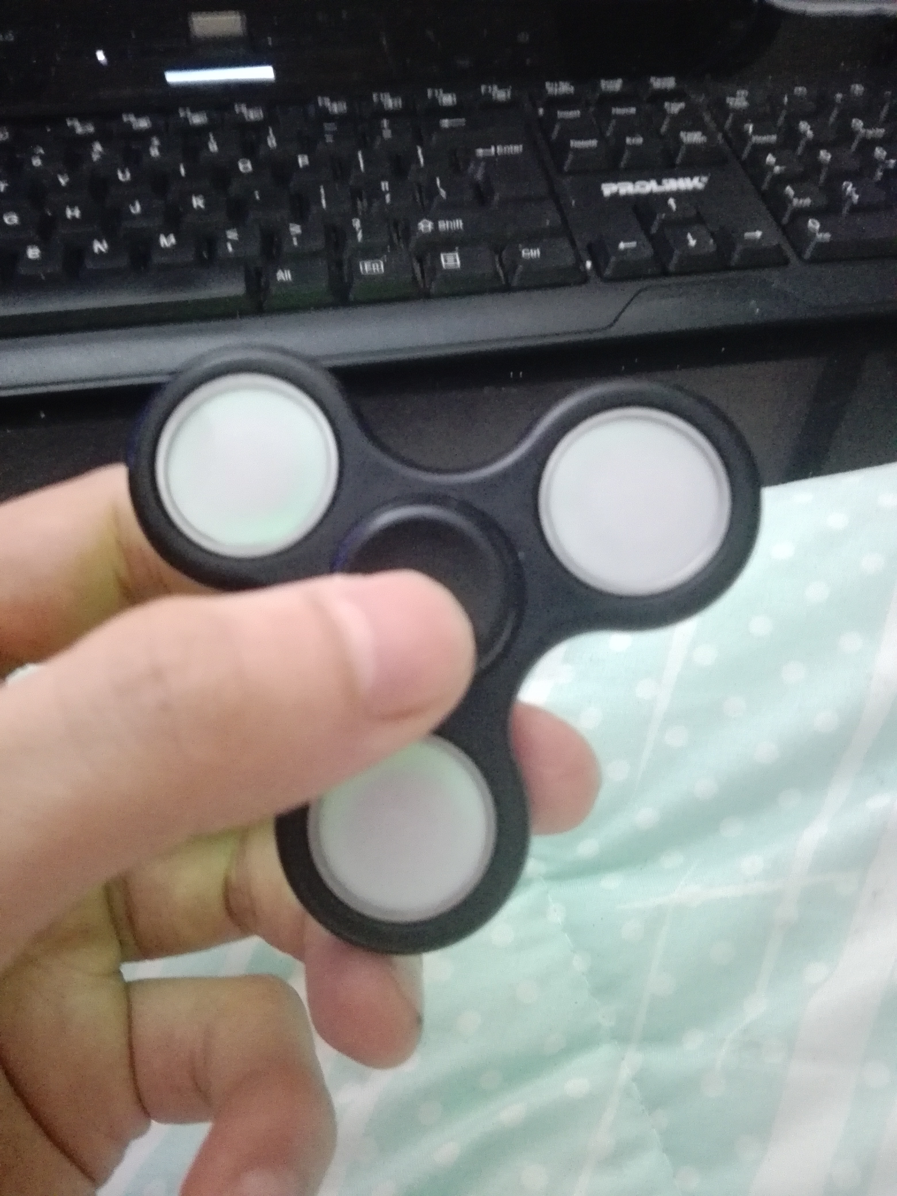 This is an LED fidget spinner showing how to hold a fidget spinner with hand.